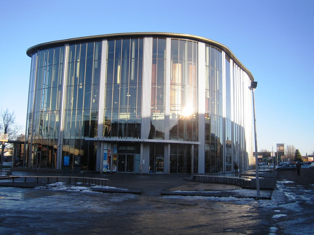 Concert hall of Pärnu, Estonia